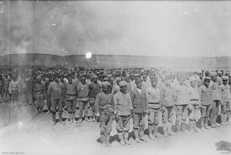 WW1 2nd Battalion established from Van Armenians in Hamadan Persia under British forces